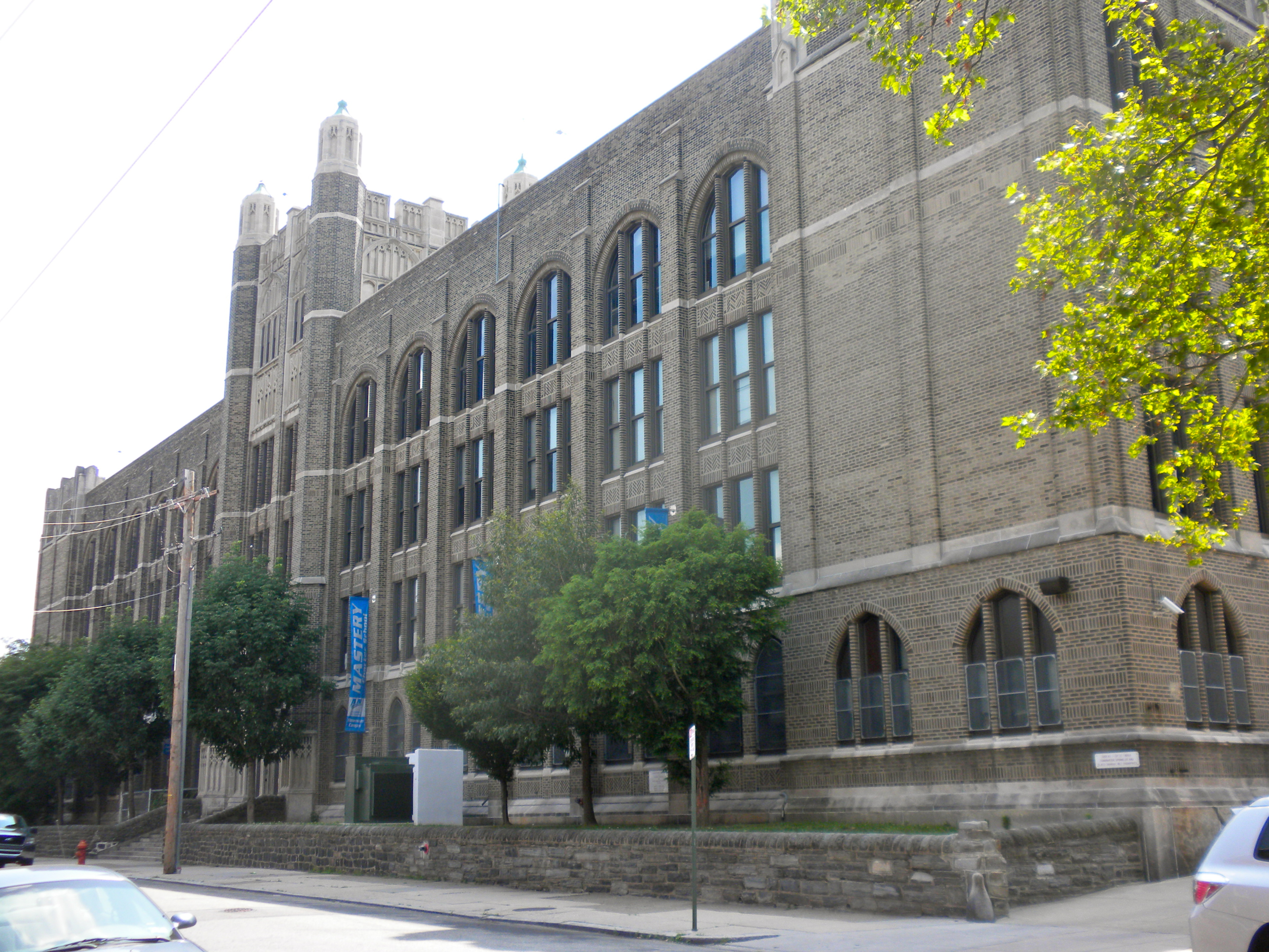 Mastery Charter School Shoemaker Campus, formerly William Shoemaker Junior High School, on the NRHP since December 4, 1986. At 5301 Media Street in Carroll Park neighborhood of West Philadelphia